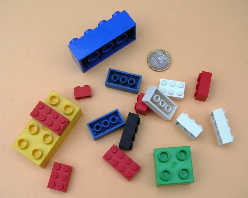 LEGO and DUPLO bricks with a 1 EURO coin for scale